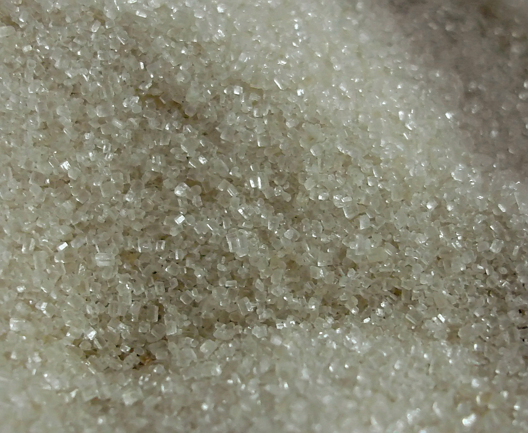 Raw (unrefined, unbleached) sugar, bought at the grocery store.